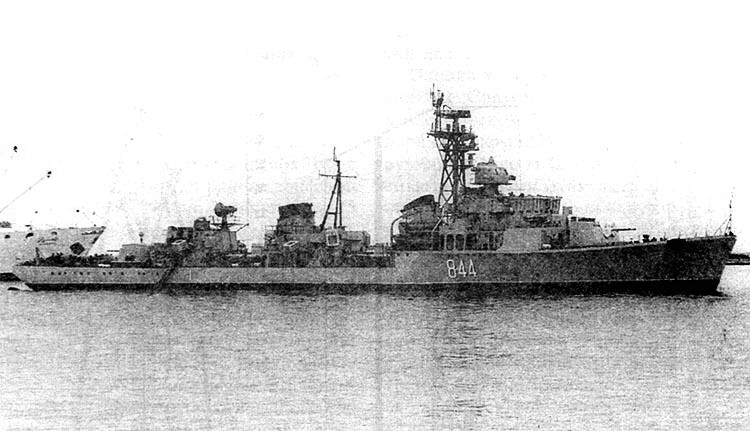 Egyptian destroyer Dimyāṭ (Damietta, former the Soviet destroyer Bessmennyi).